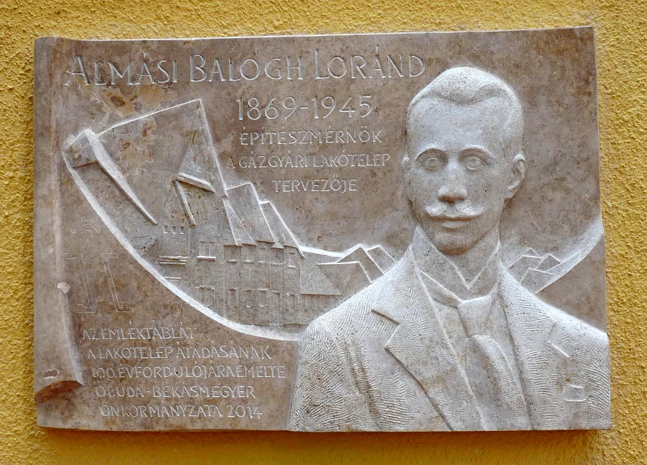 Commemorative plaque to Mr. Loránd Almási Balogh (1869–1945) Hungarian architect. It is affixed to the wall of the Pensioners Club bearing his name September 24, 2014, on the occasion of the centenary of the contruction of the residential area for employees of the Gasworks of Óbuda planned by him. The author of the relief is Mr. György Markolt. (Budapest, District III, Sujtás Street Nr 20)